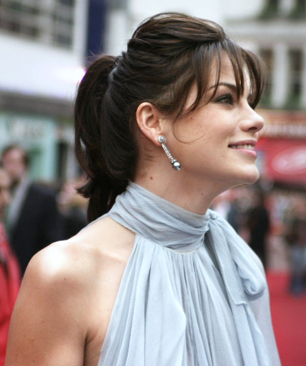 Michelle Monaghan at the Mission: Impossible III British premiere.